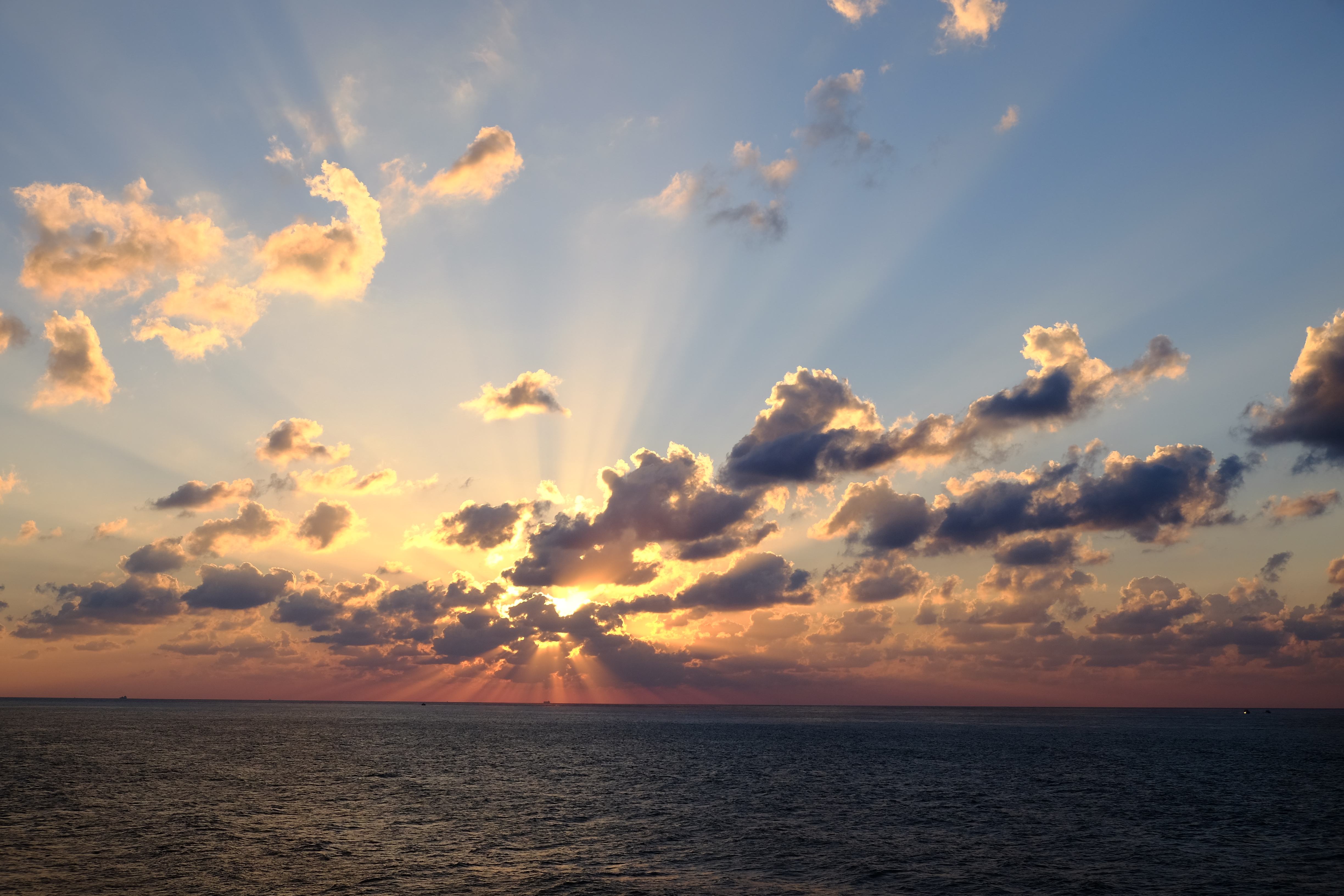 Sunset over the Taiwan Strait from near the lighthouse at Cape Fugui, the northernmost point on Taiwan